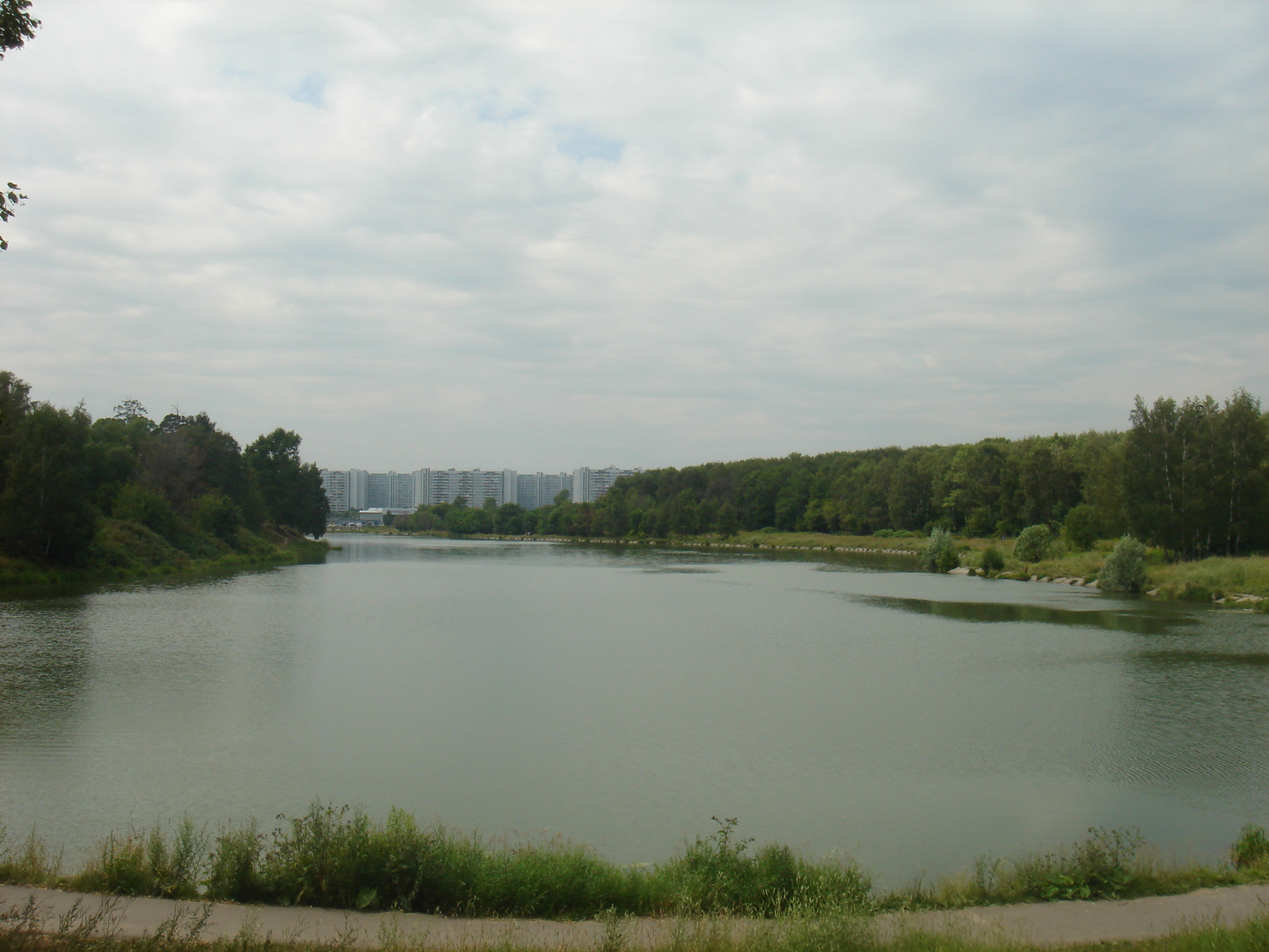 Moscow. Losinoostrovsky district. Jamgarovsky pond.